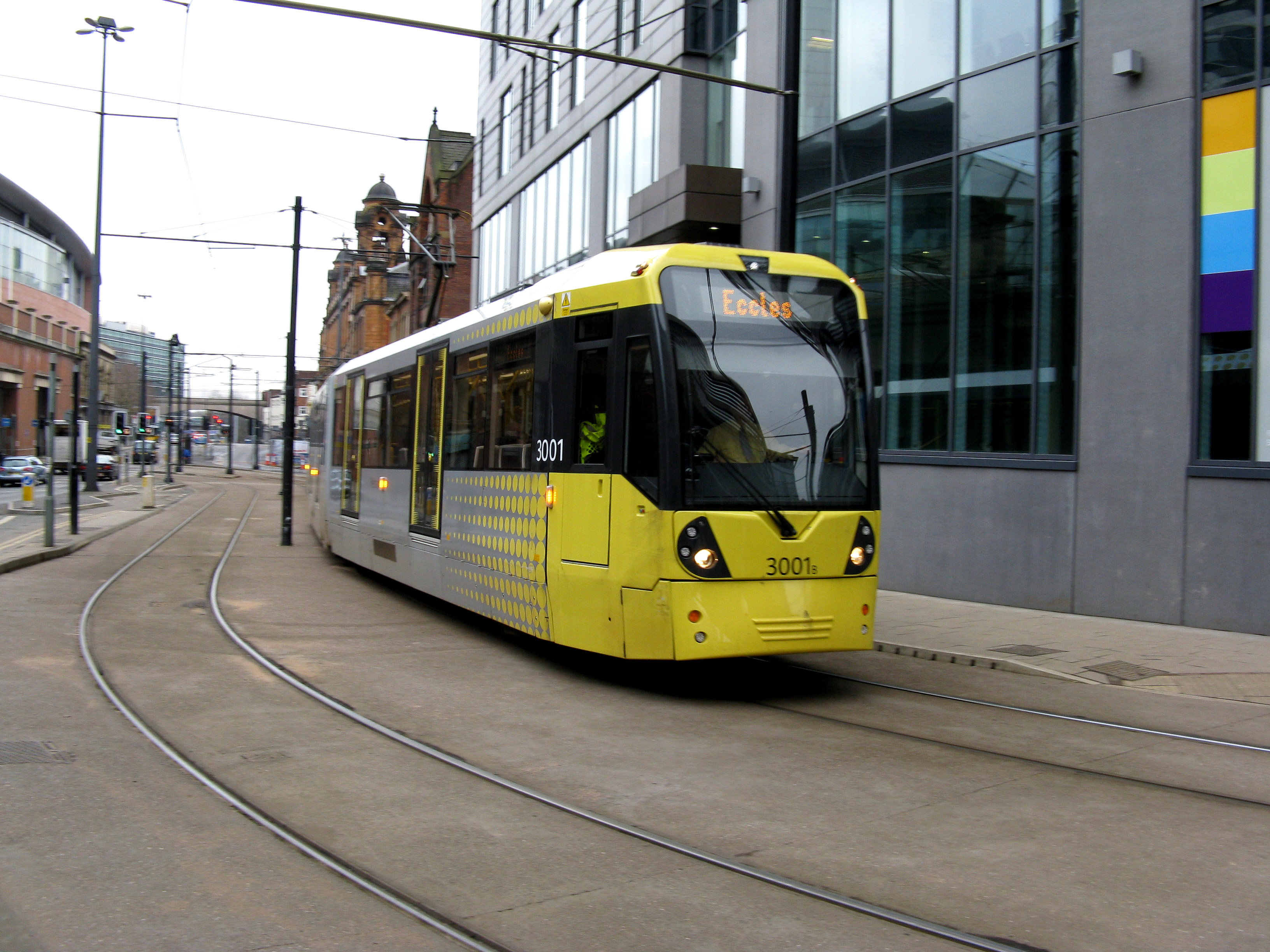 The No 3001 Manchester Metrolink tram in central Manchester, England.